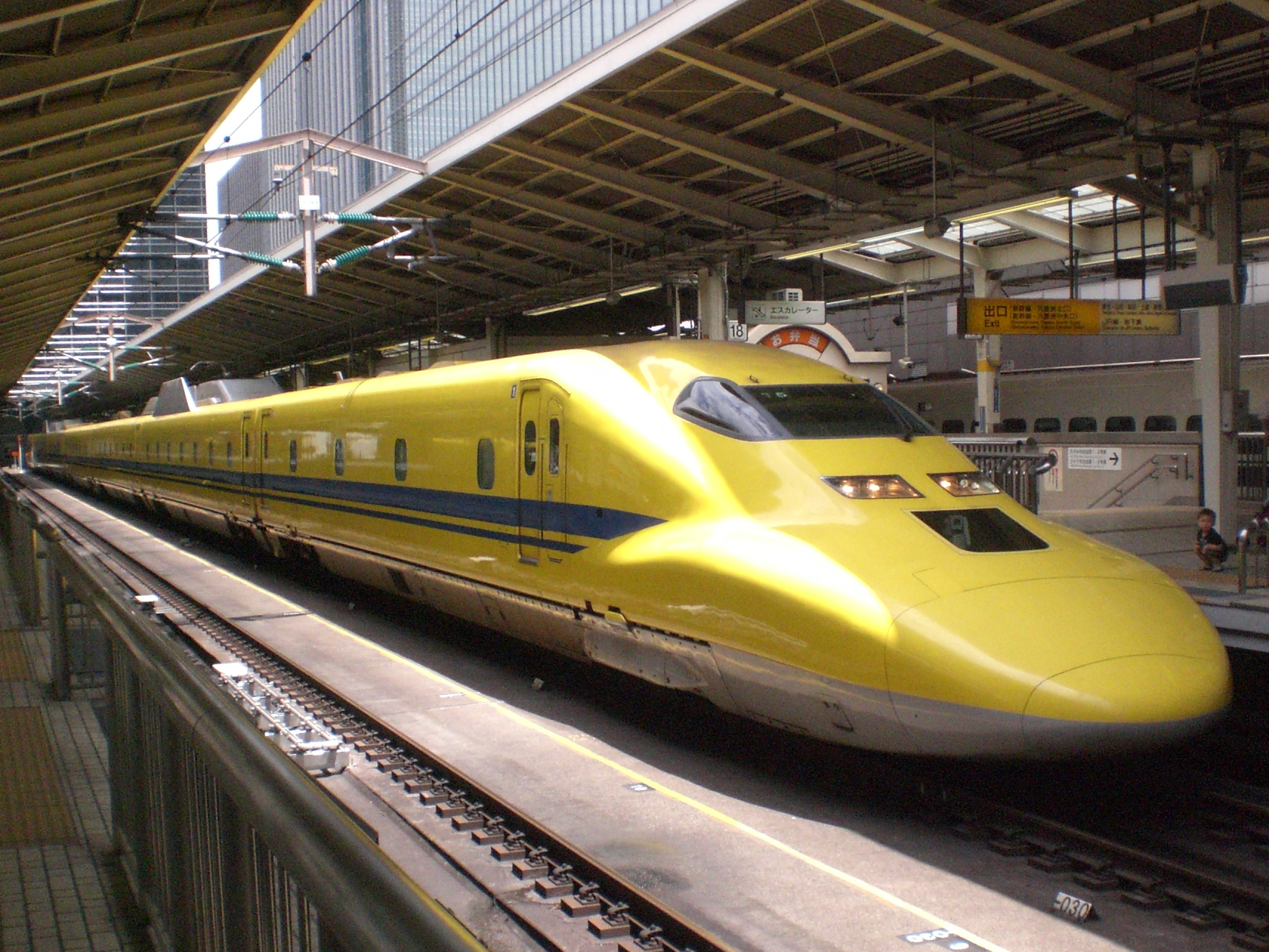 JR West 923-3000 series "Doctor Yellow" Shinkansen inspection trainset T5 at Tokyo Station